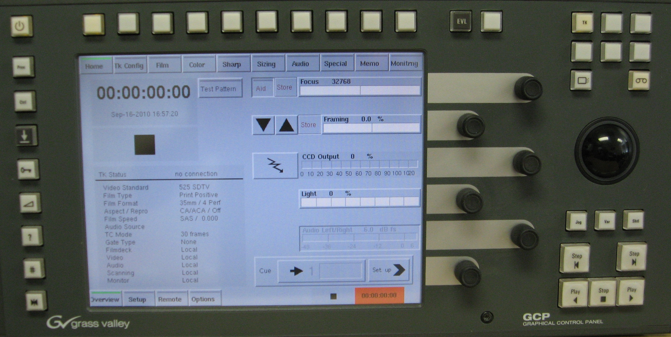 Photo of a Spirit DataCine GCP, Graphical Control Panel